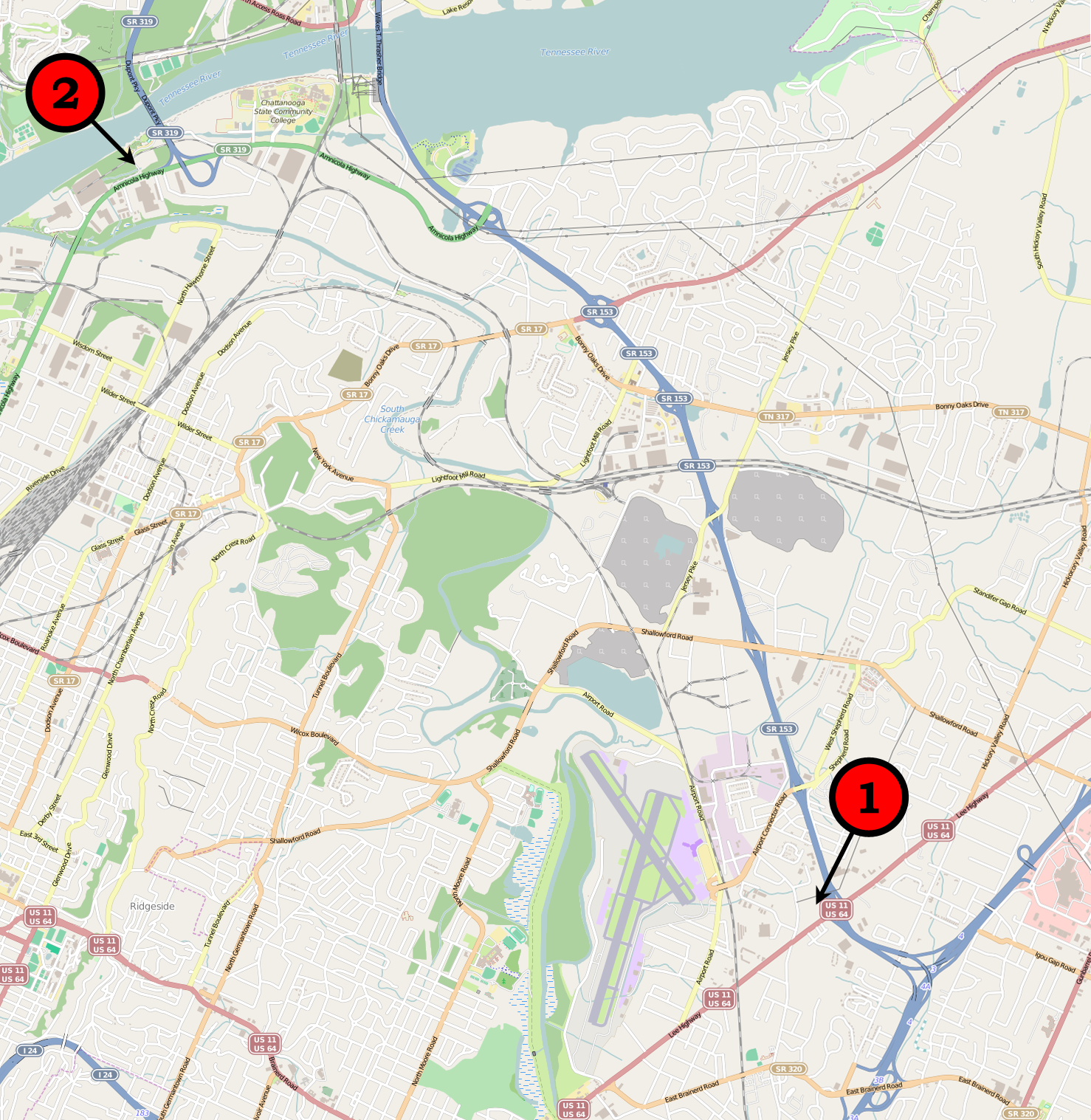 A map of the locations of the 2015 Chattanooga shootings. US Naval Reserve 4051 Amnicola Hwy Chattanooga, TN 37406 United States. US Air Force Recruiting 6219 Lee Hwy #3B Chattanooga, TN 37421 United States